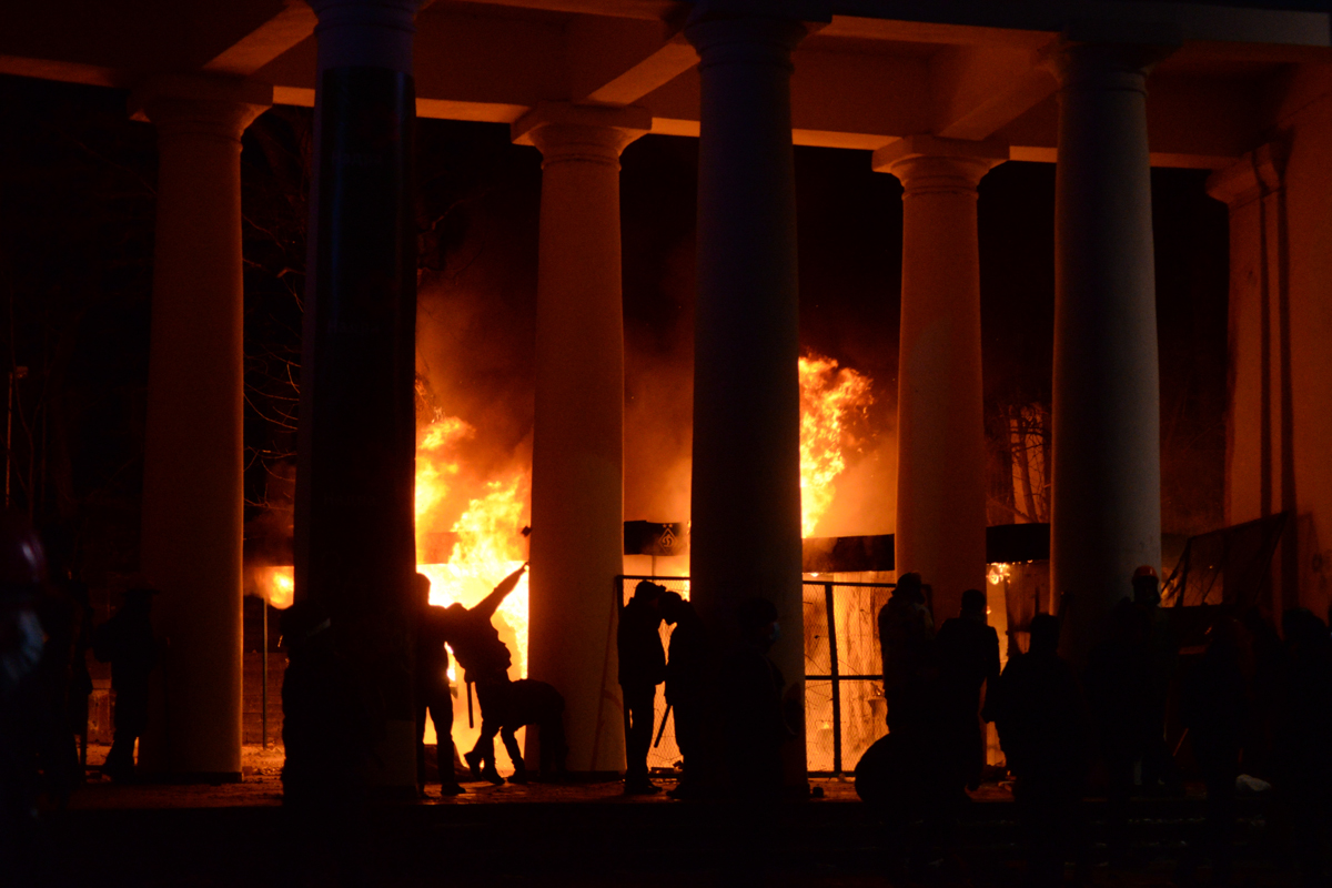 Entrance ro the Mariinsky park on fire. Euromaidan Protests. Events of Jan 19, 2014